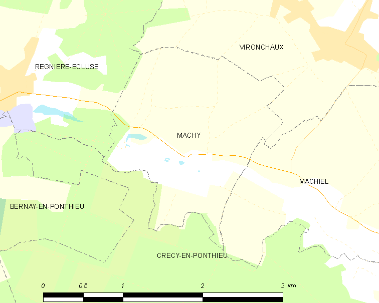 Map of French municipality Machy